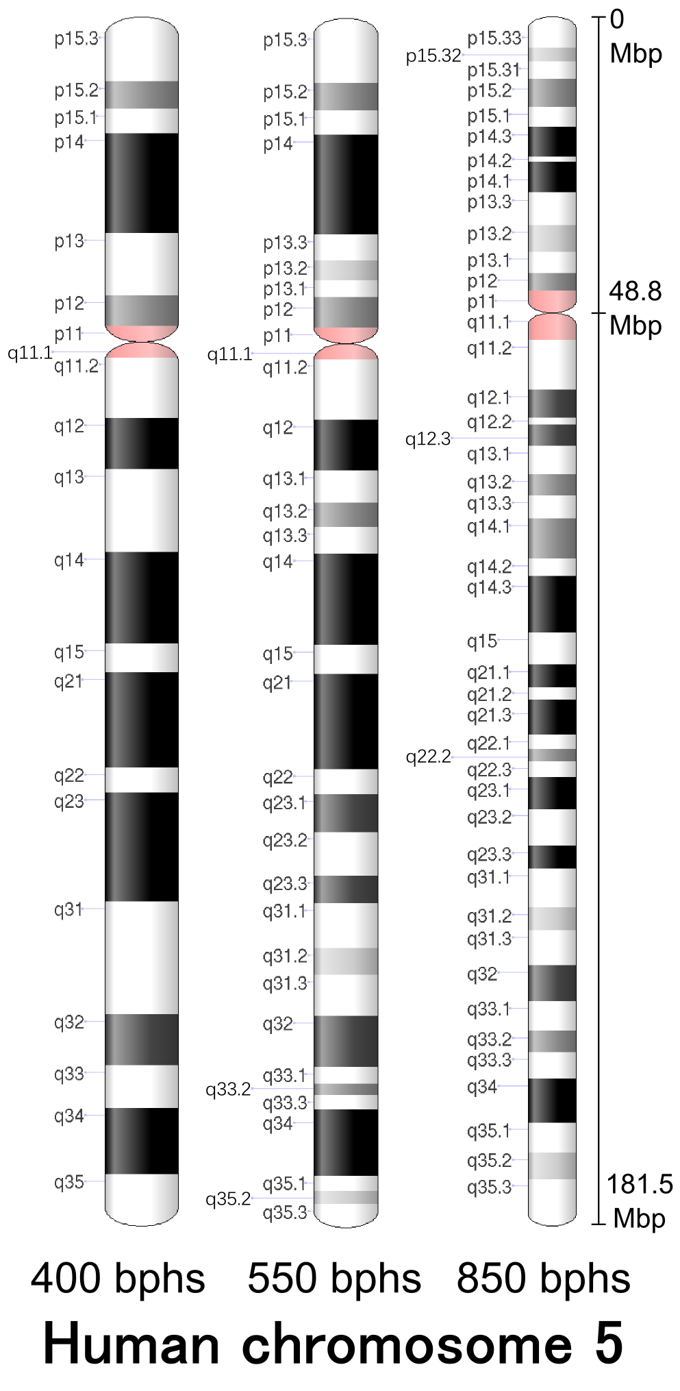 Ideograms of G-band pattern of human chromosome 5 in three different resolutions (400, 550 and 850 bphs, bands per haploid set). Different resolutions are corresponding to different band patterns observed through mitotic phase (about relation between banding resolution and mitotic phase, see, for example, Fig.3 in W Sethakulvichaia (2012)). Legend: Black and gray is Giemsa positive. Red is centromere. Light blue is variable region. Dark blue is stalk. At the right, centromere position (center) and q arm terminus position (bottom), counted from p arm terminus (top) in Mbp (mega base pairs), are labeled. Physical length (sometimes referred as "absolute length") is not labeled. Because physical length of chromosomes vary while mitosis. (typical human chromosome physical length is in the order of from several micrometers to ten and several micrometers. See, for example, Category:Human chromosome images with scale bars.).